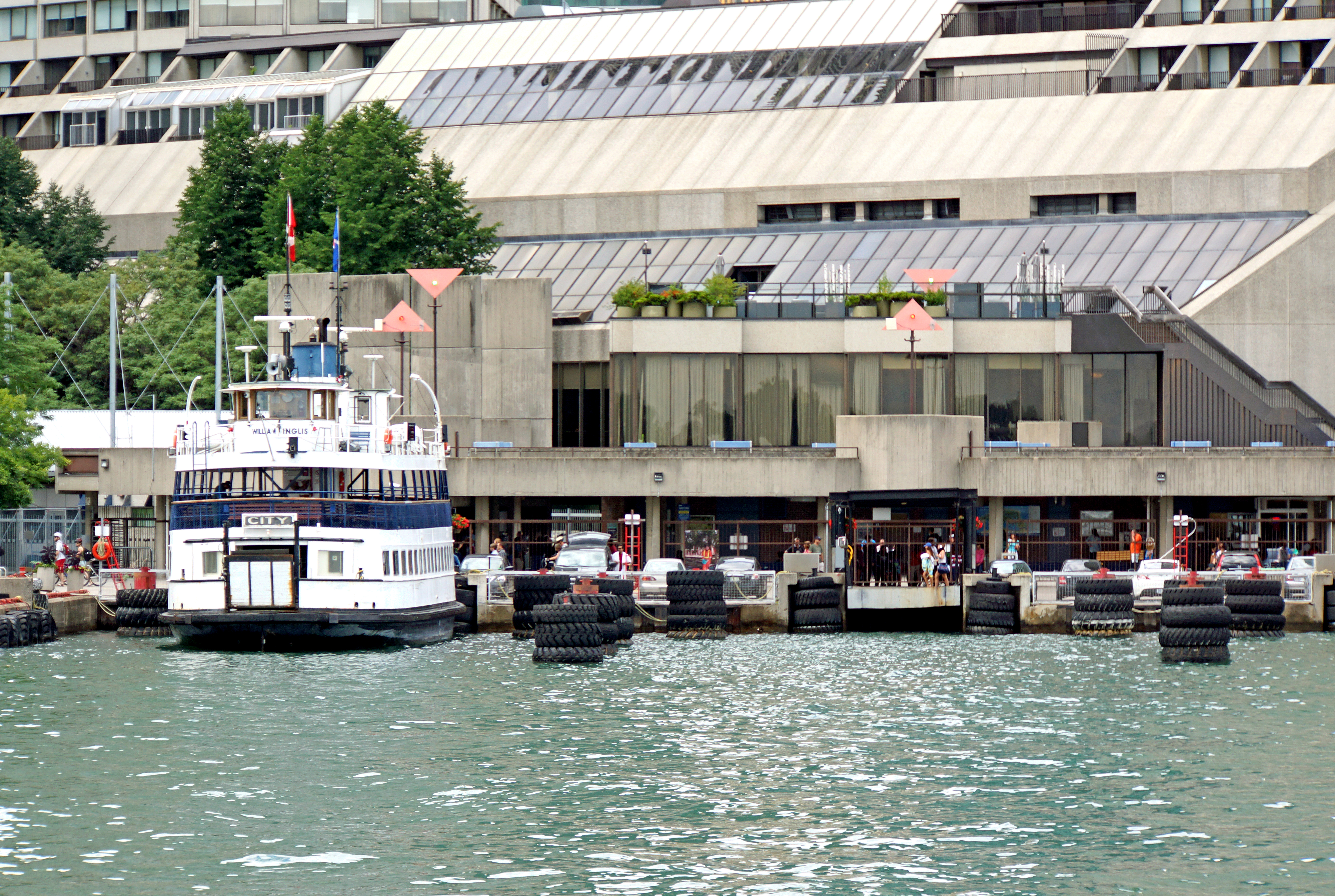 PLEASE, NO invitations or self promotions, THEY WILL BE DELETED. My photos are FREE to use, just give me credit and it would be nice if you let me know, thanks. The ferry terminal in downtown Toronto.